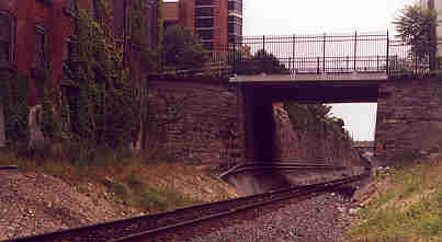 North entrance of the 7th Street Cut in Reading, Pennsylvania, a manmade ravine created for railroad tracks to run level, rather than climbing and descending a steep hill. The Cut was the scene of the Reading Railroad Massacre on July 23,1877: Pennsylvania militia were marched into the north end of the Cut in order to free a train blocked by strikers; the ended up shooting into a crowd gathered at the south end of the cut, killing 10. This photo was shot in 1999. Though at that time only one set of tracks ran through the Cut, at the time of the Massacre two sets of tracks - one northbound, one southbound - were there.